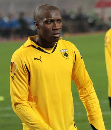 Steve Leo Belek playing for AEK.